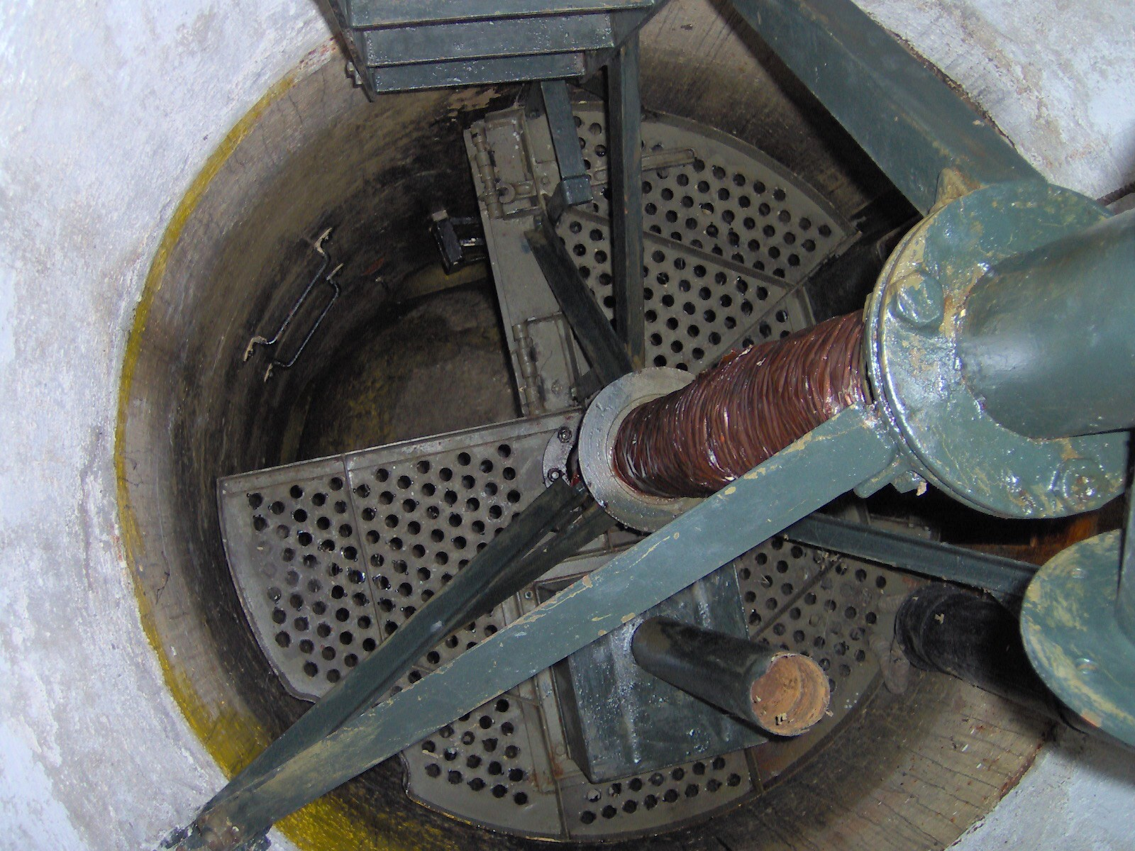 MJ-S 3 Zahrada infantry casemate, Znojmo District, Czech Republic